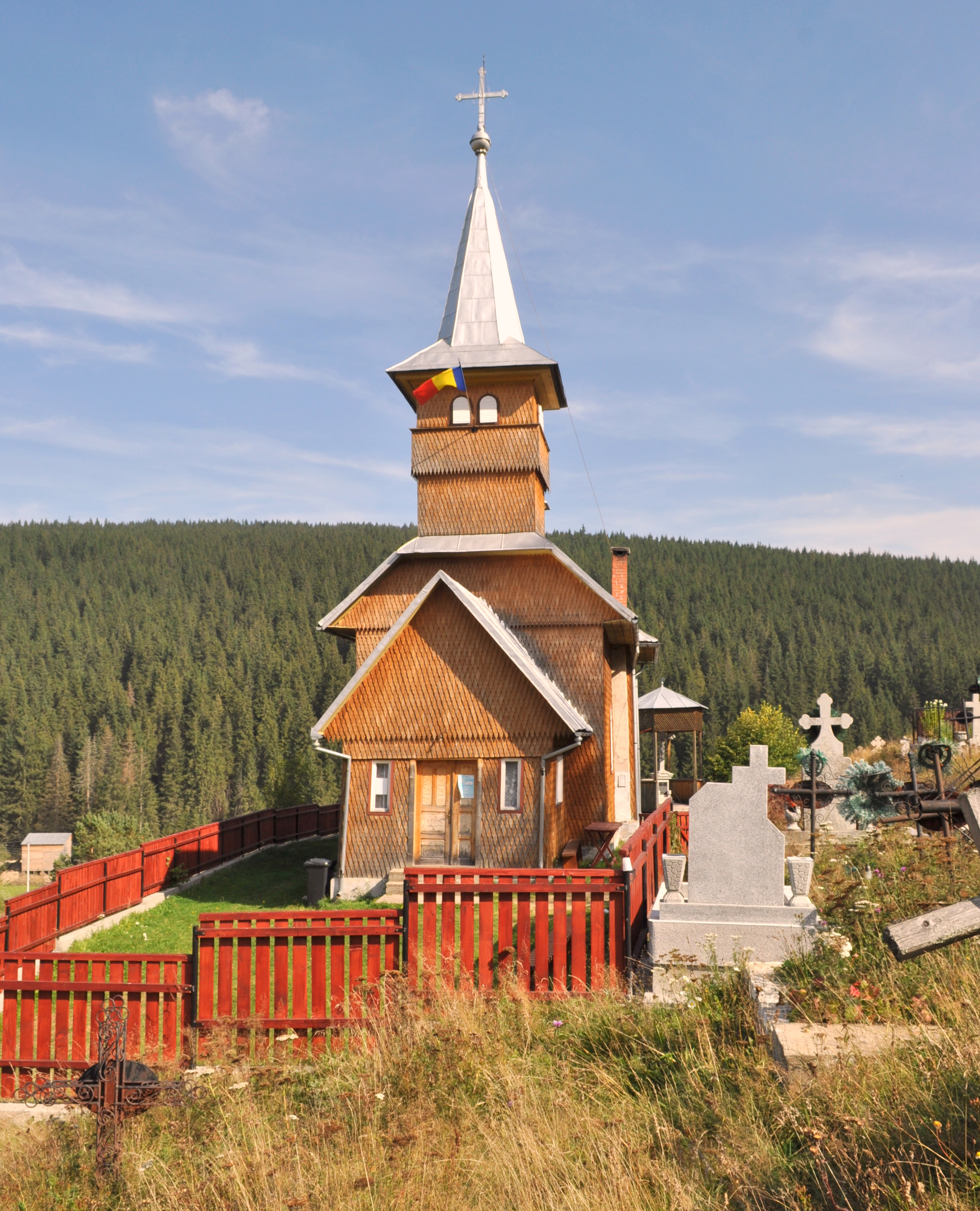 Wooden church in Poiana Horea, Cluj County, Romania